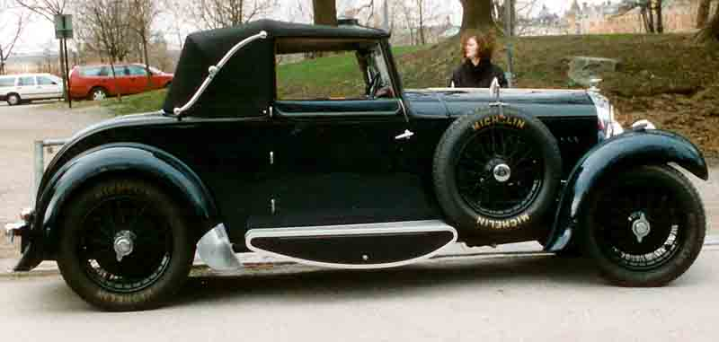 Bentley 4½-Litre Drophead Coupé 1930